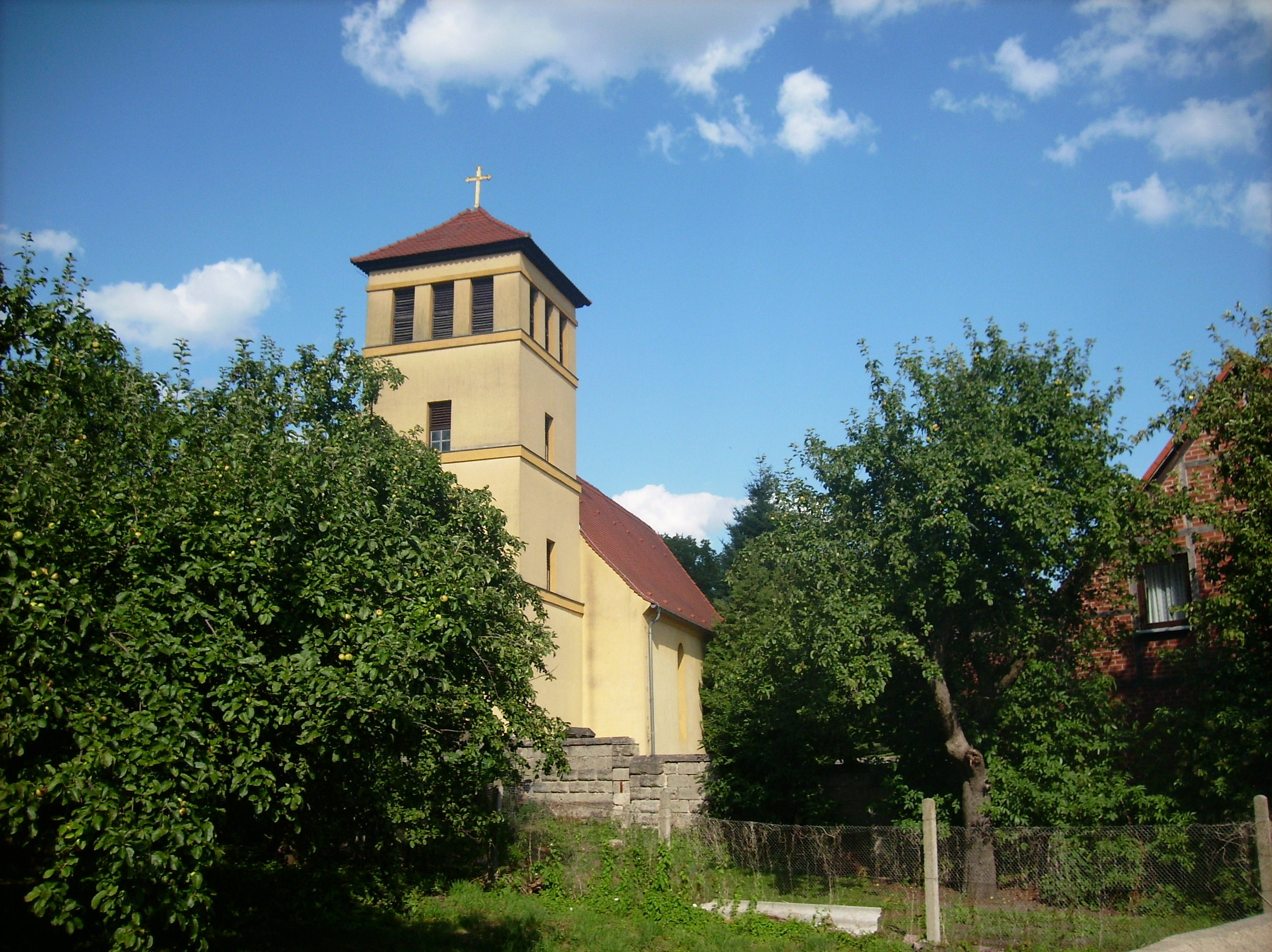 Schwemsal Church (Muldestausee, Anhalt-Bitterfeld district, Saxony-Anhalt)